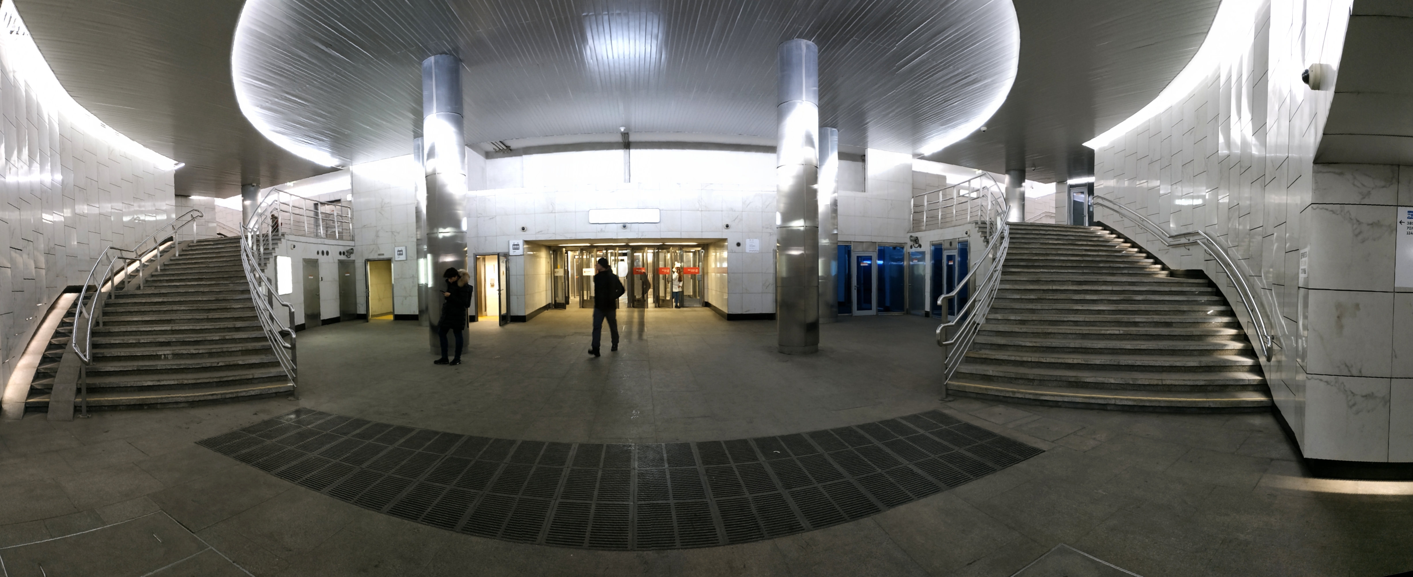 Moscow metro Troparevo